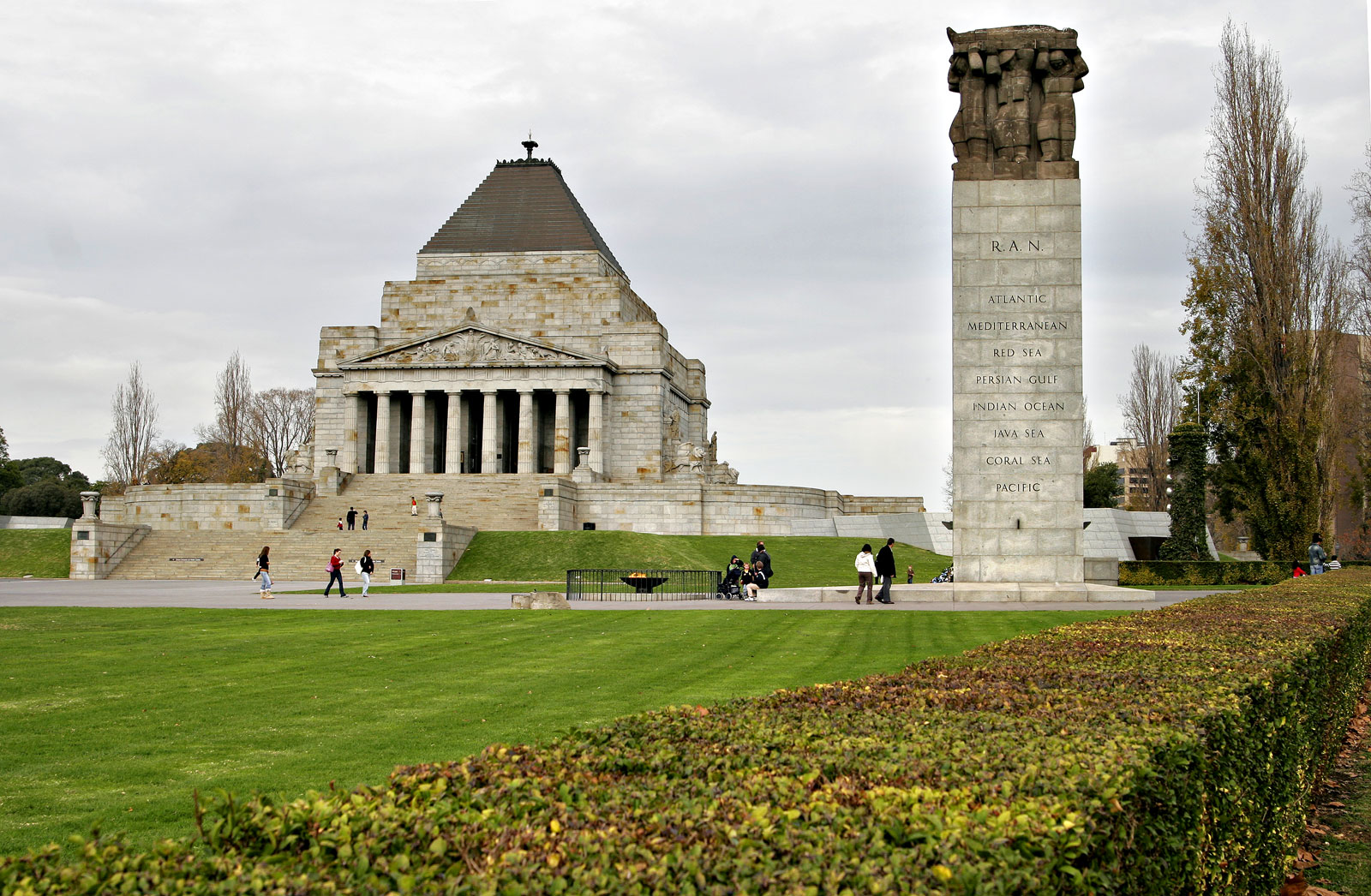 Shrine of Remembrance in Melbourne